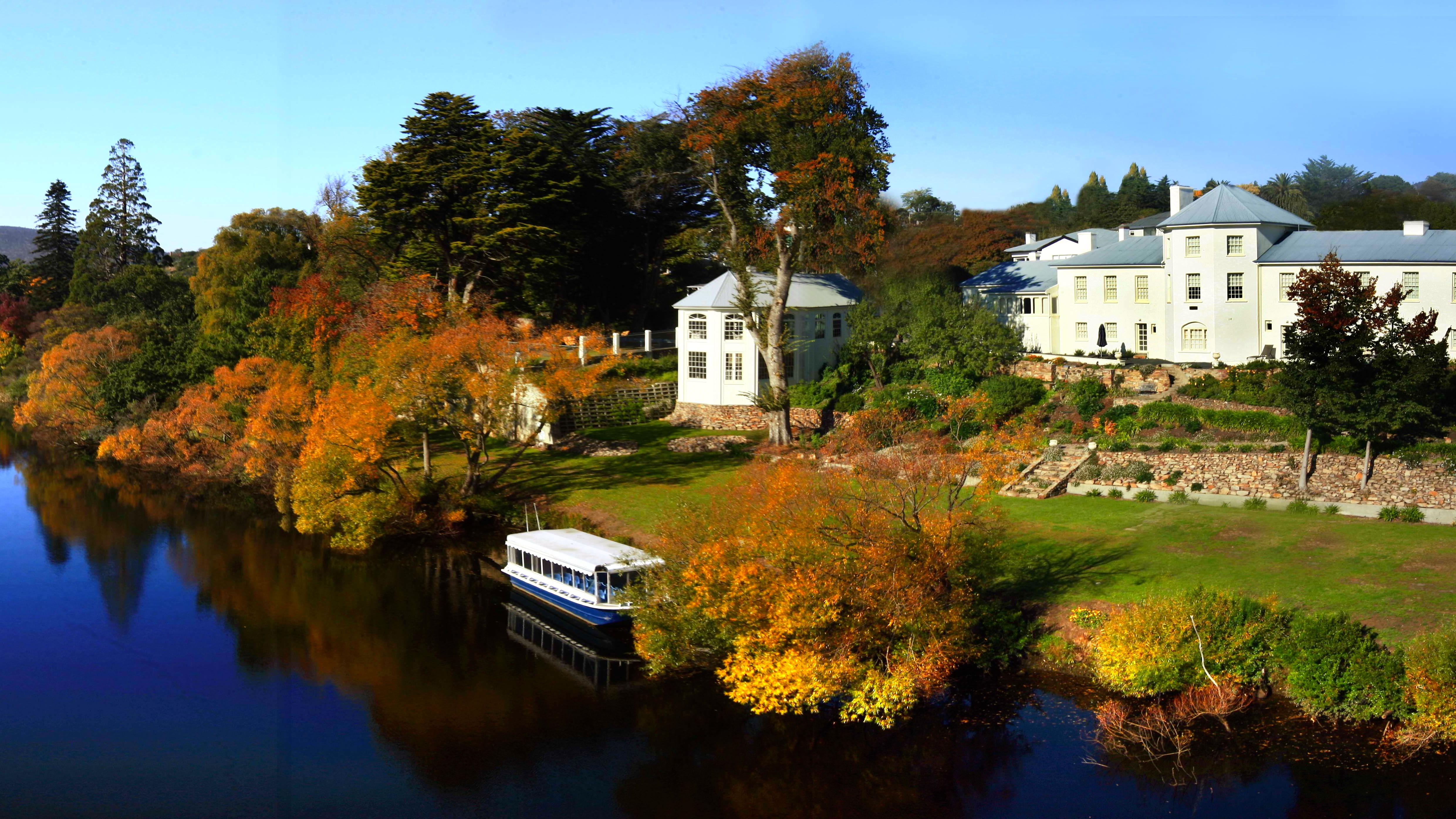 Woodbridge, from the bridge over the Derwent